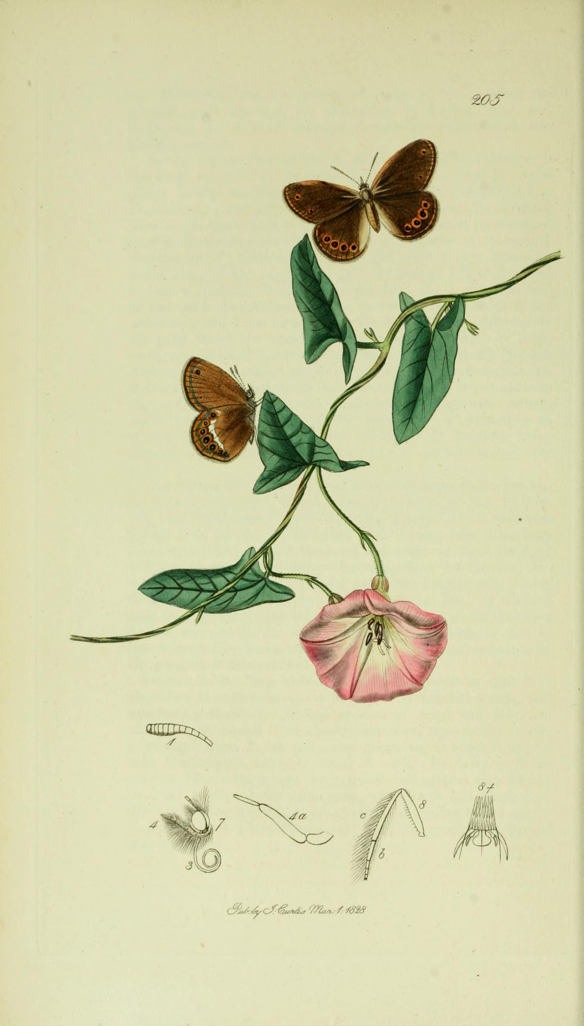 An illustration from British Entomology by John Curtis. Hipparchia hero or Coenonympha hero